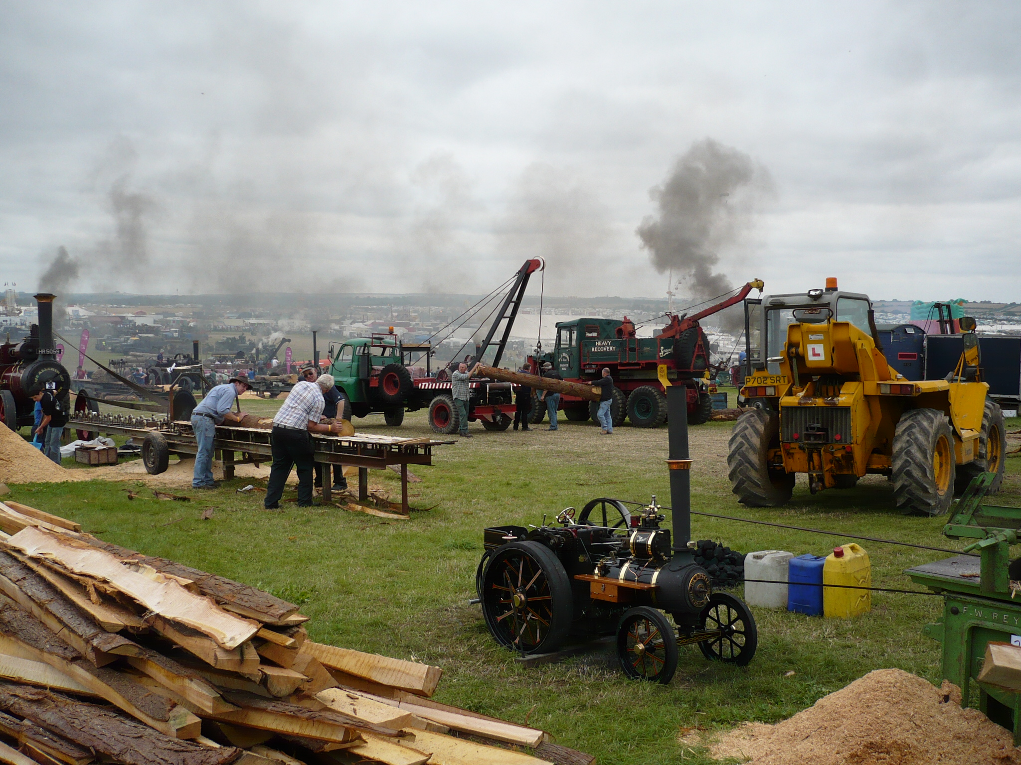 Sawing demonstration at Great Dorset Steam Fair